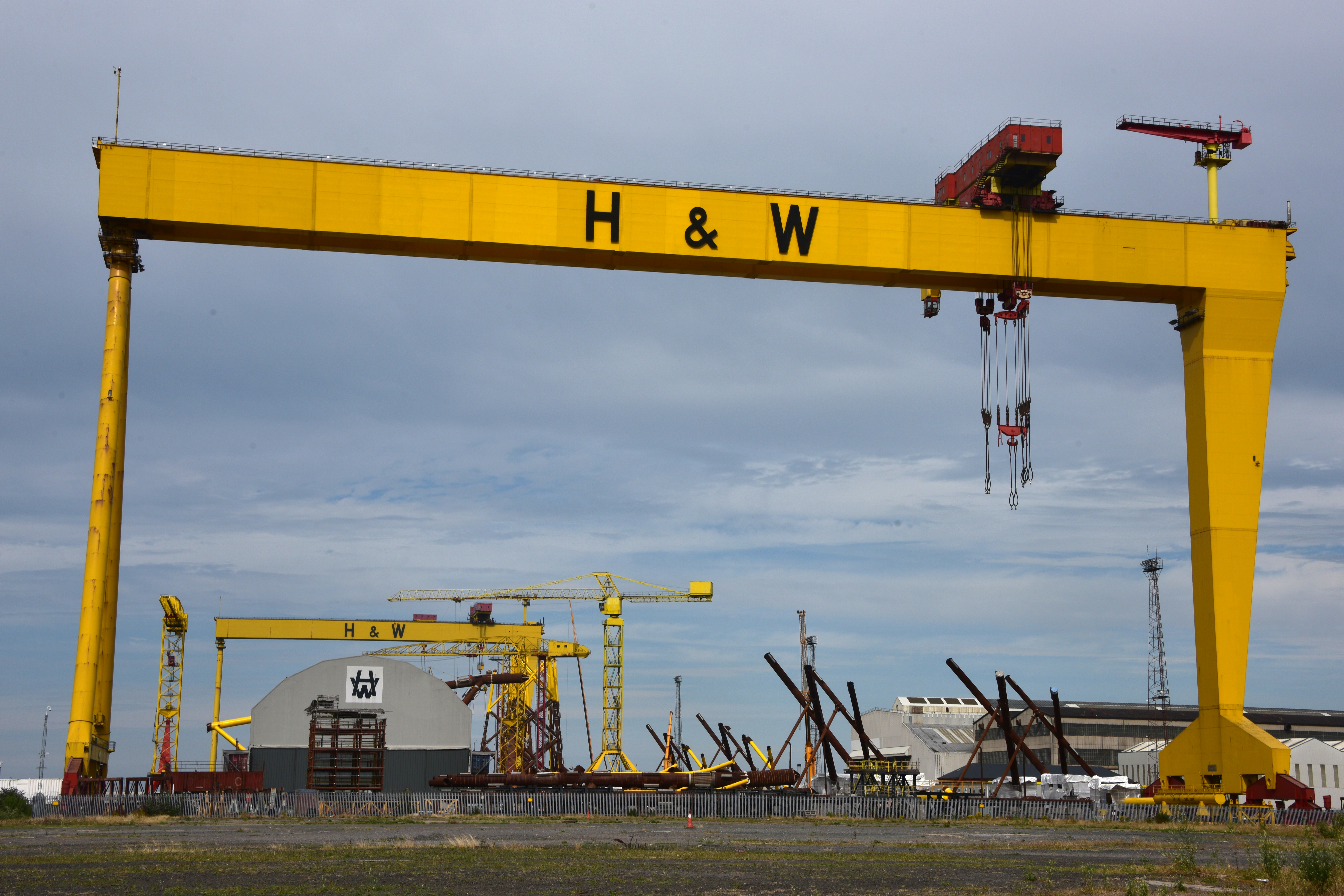 The enormous gantry cranes in the yards of Harland & Wolff, shipbuilders, Belfast.